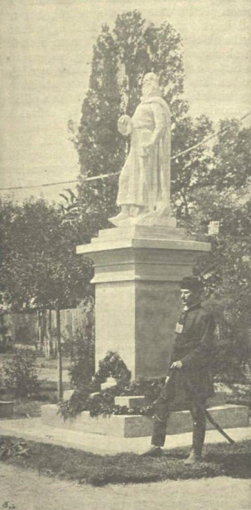 Statue of Stephen I of Hungary in Bačka Palanka